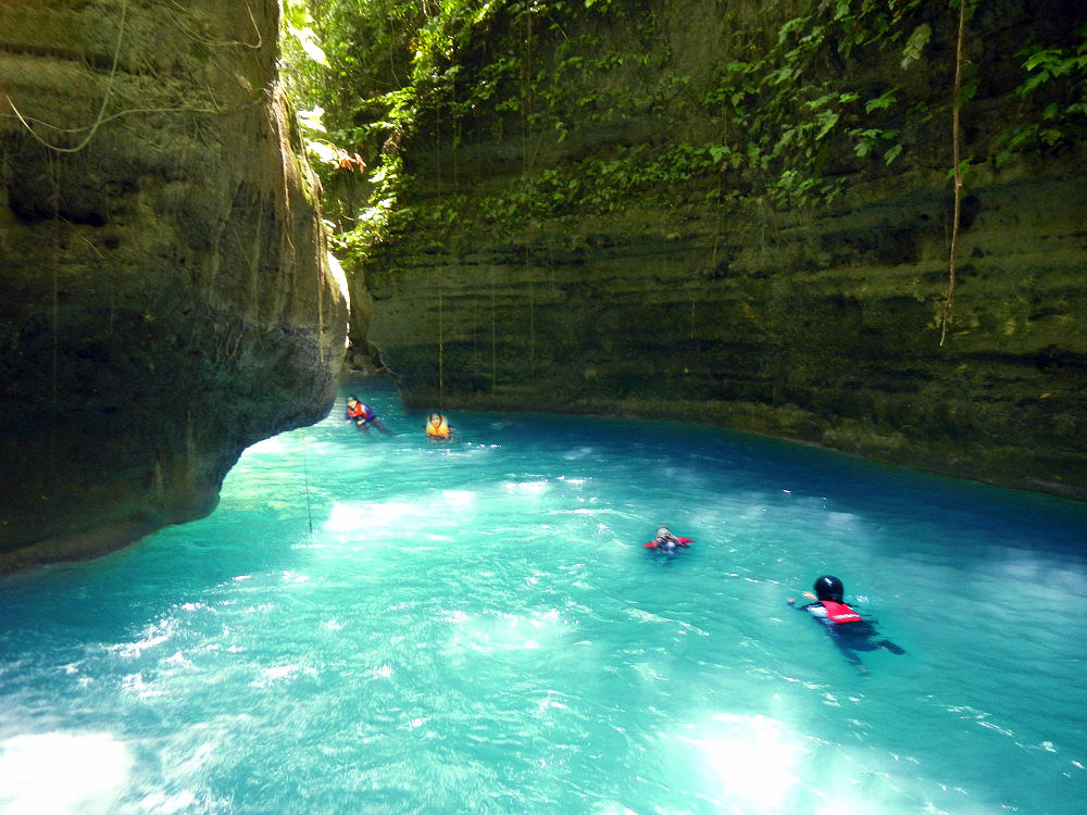 Beautiful canyons of Kawasan open for those people who wants adventure